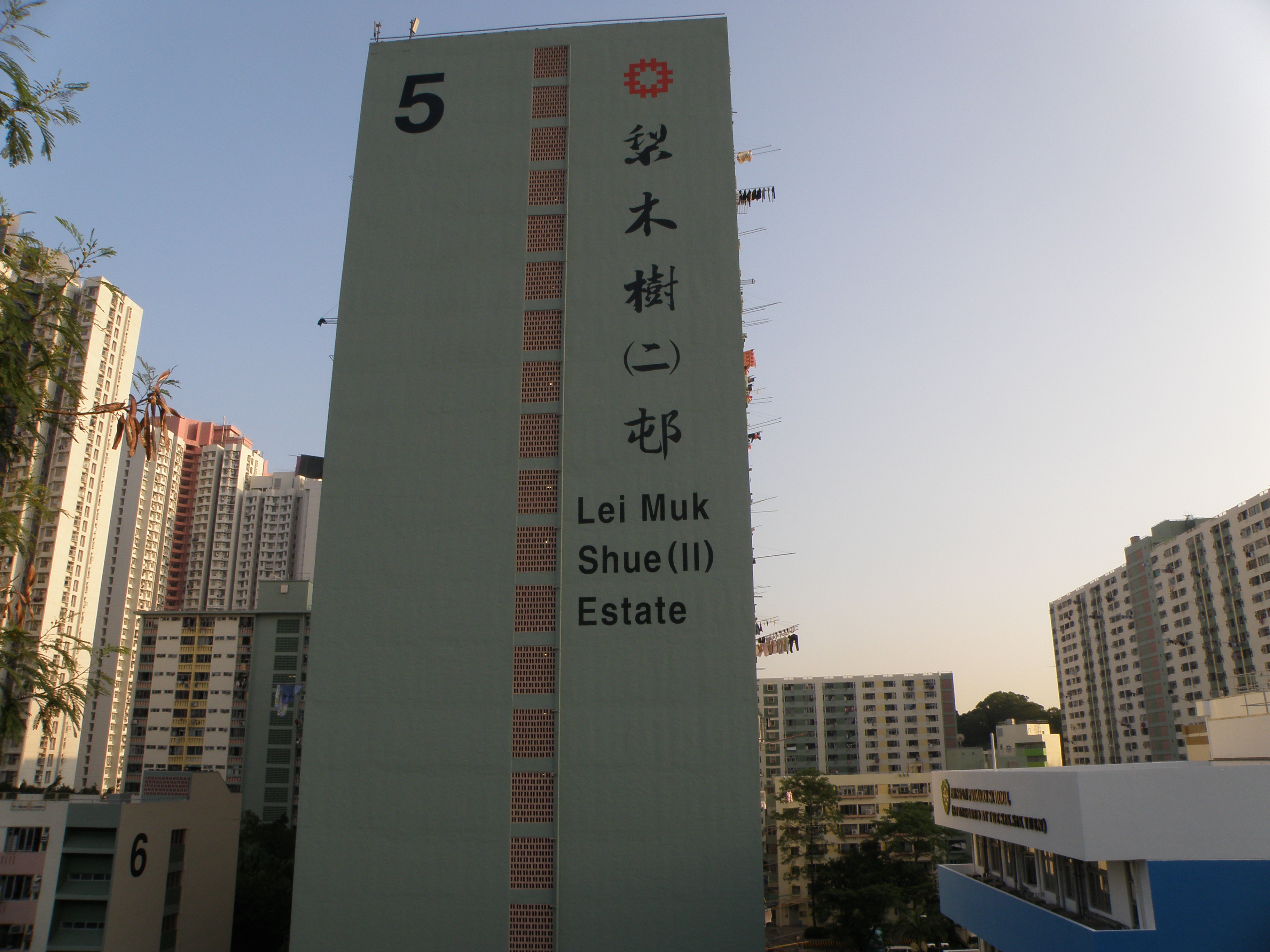 Lei Muk Shue (II) Estate in Kwai Chung, Hong Kong.